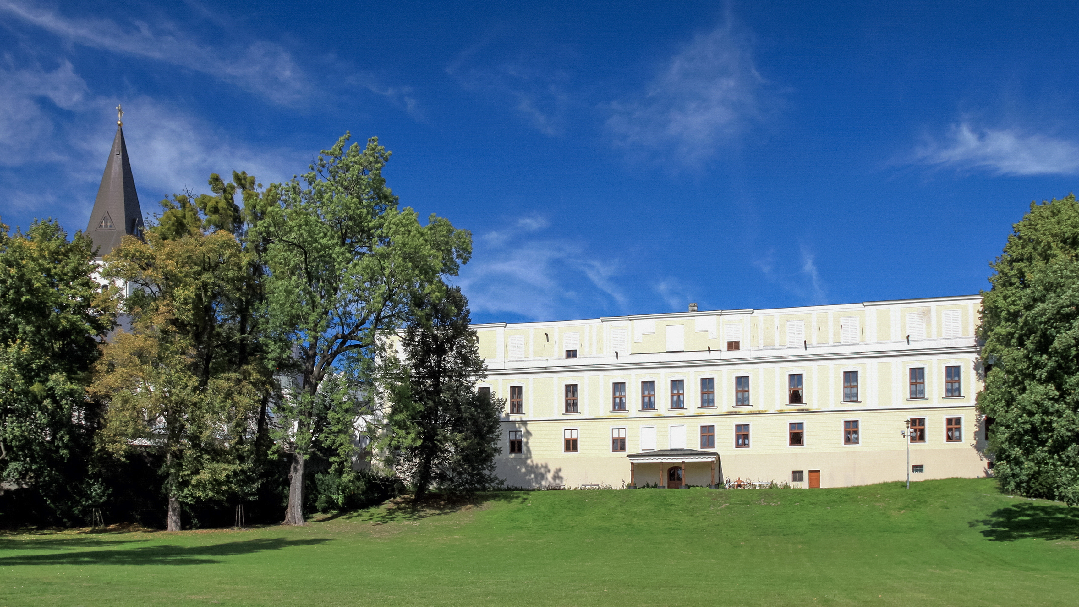 Fryštát chateau, 1 Masarykovo náměstí, Fryštát. Karviná, Moravian-Silesian Region, Czech Republic.